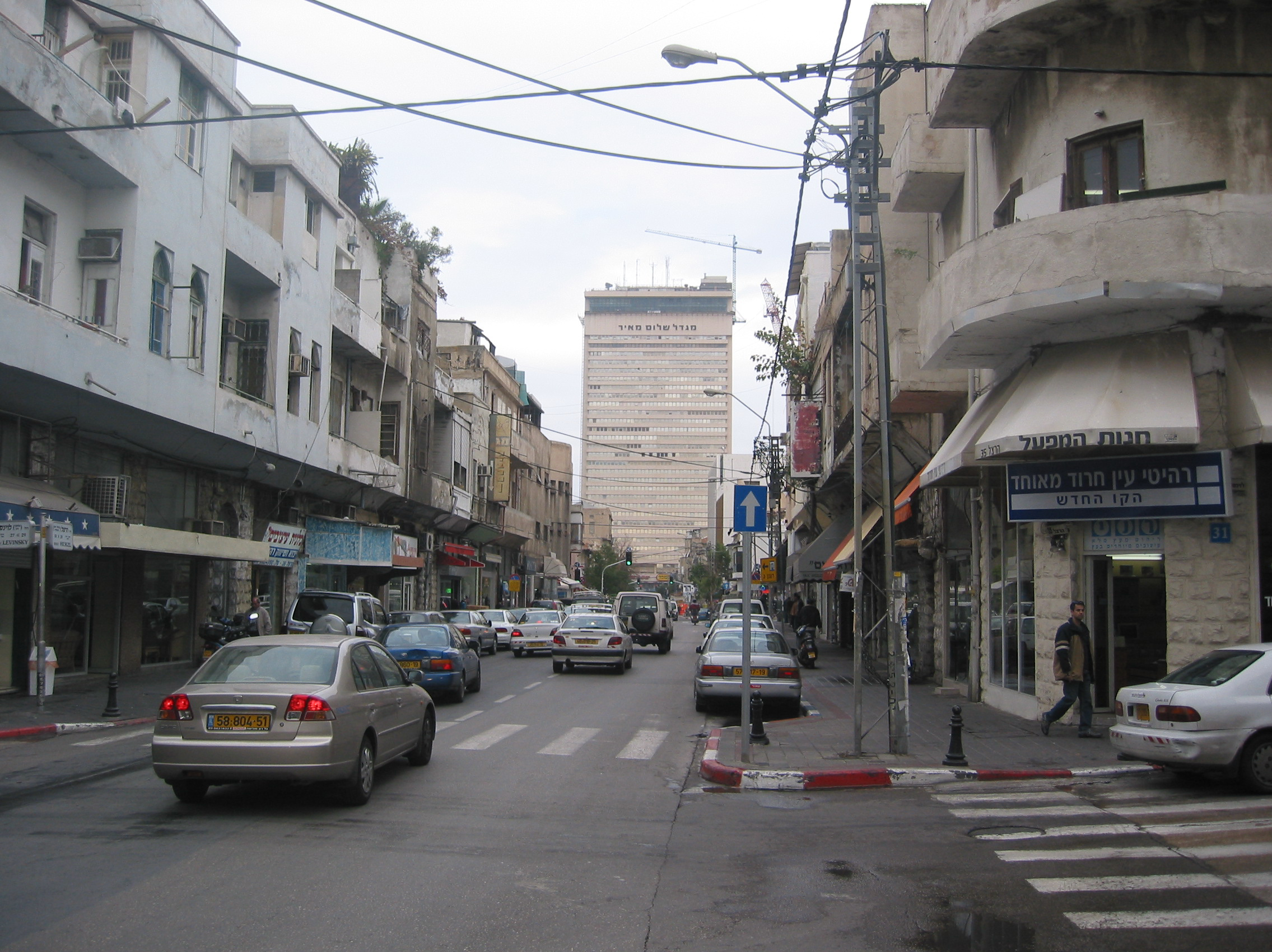 Herzl street, Tel aviv, Israel. In the center: Shalom Meir Tower